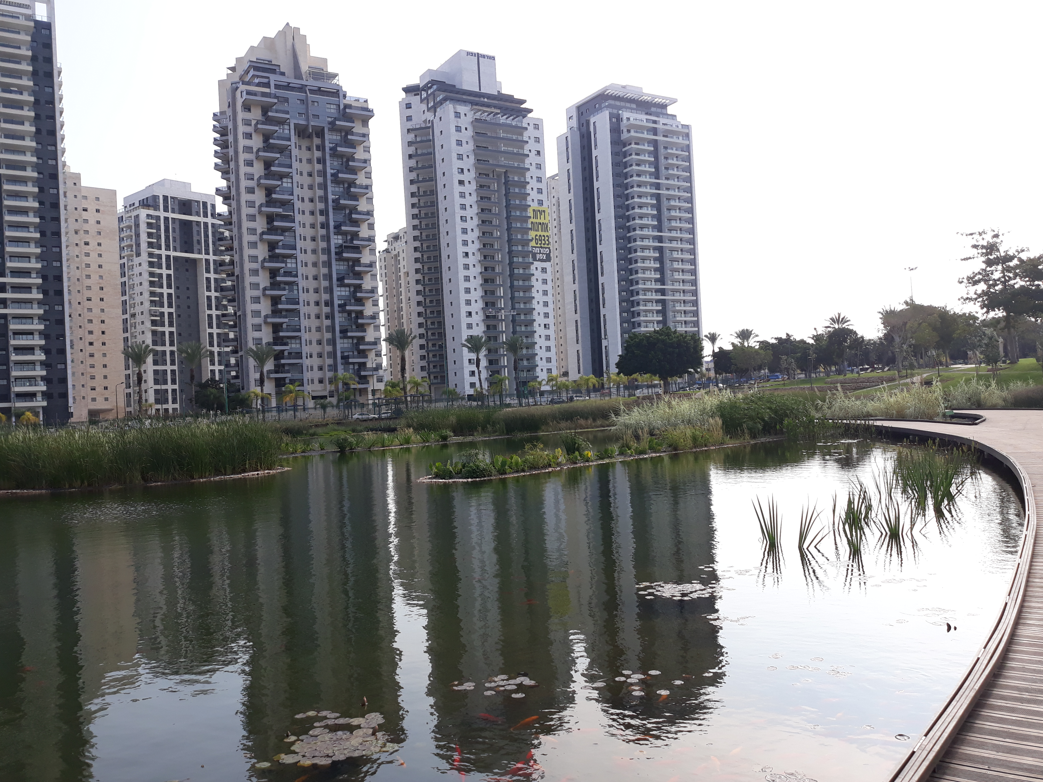 The Ecological lake in Petah Tikva Park.